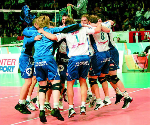 Napapiirin Palloketut won Finland Cup-Champion season 2005